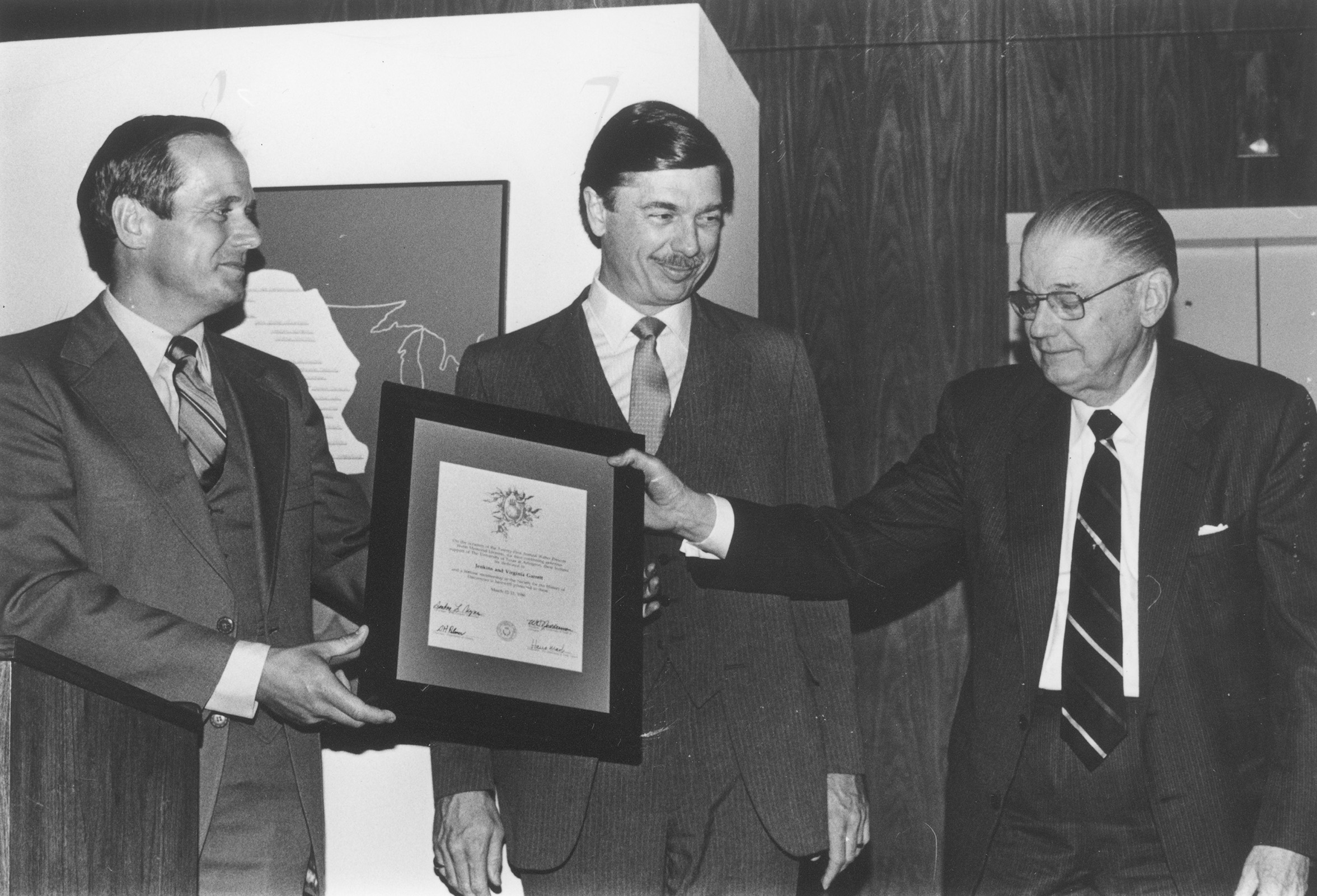 Jenkins Garrett presented with 21st Annual Walter Prescott Webb honor and lifetime membership in Society for the History of Discoveries. Left to right, Dennis Reinhartz (professor of history), Charles Lowry (UTA Library Director), and Jenkins Garrett.